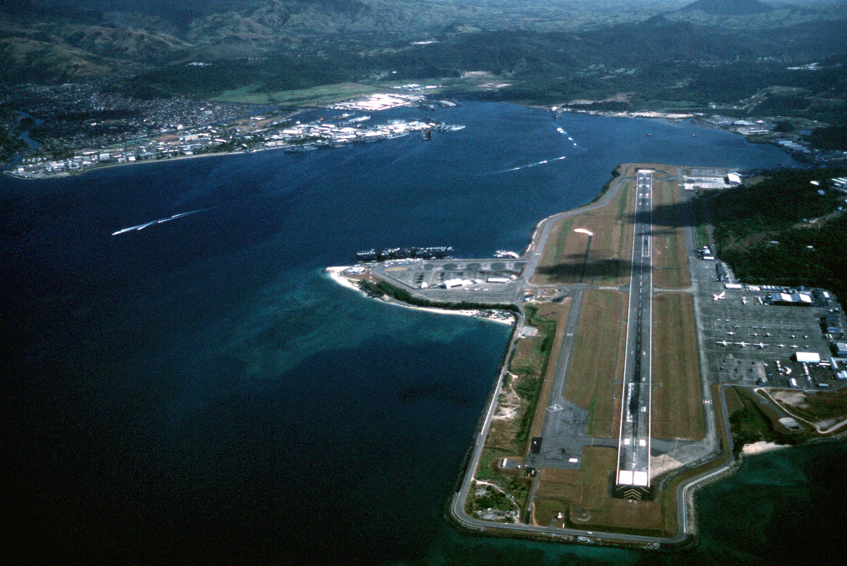 An aerial view of the station and, in the background, Naval Air Station, Cubi Point. Location: NAVAL STATION, SUBIC BAY, LUZON PHILIPPINES (PHL)